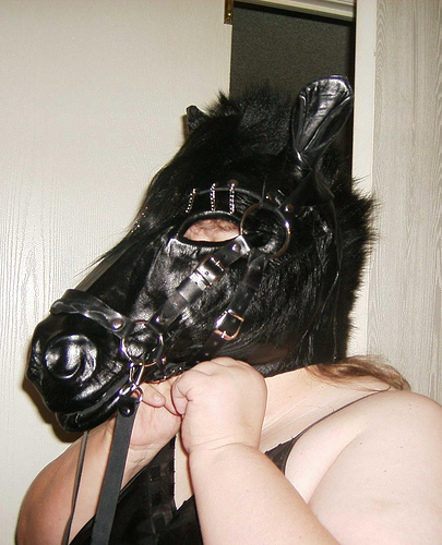 Bob Basset Horse/Pony Mask